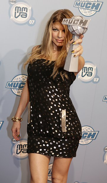 Fergie was an attendee at the 2007 MuchMusic Video Awards, held the night of Sunday, June 17, 2007 in Toronto, Ontario, Canada.